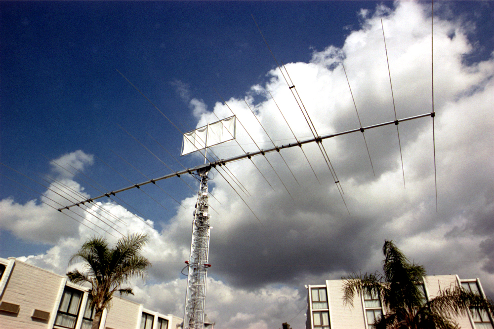 One of the largest antennas for Amateur Radio purposes on display in Visalia, California during an international convention